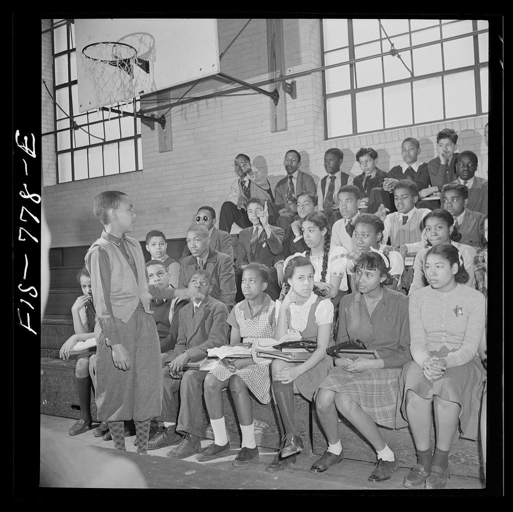 Washington, D.C. Student council meeting at the Banneker Junior High School